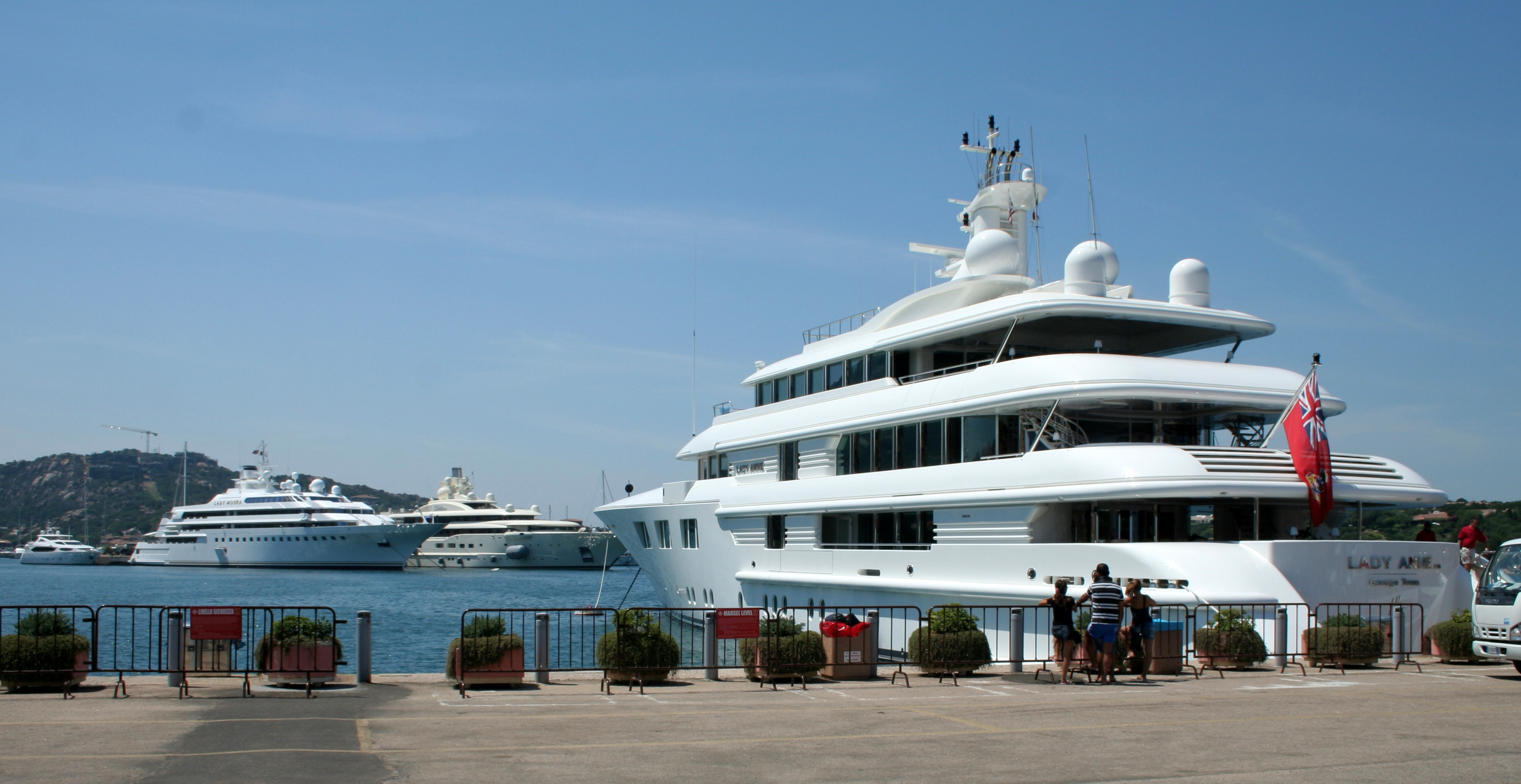 Three luxury yachts - Lady Anne, Lady Moura and Dilbar within the port of Porto Cervo. They are all among the 100 largest luxury yachts.